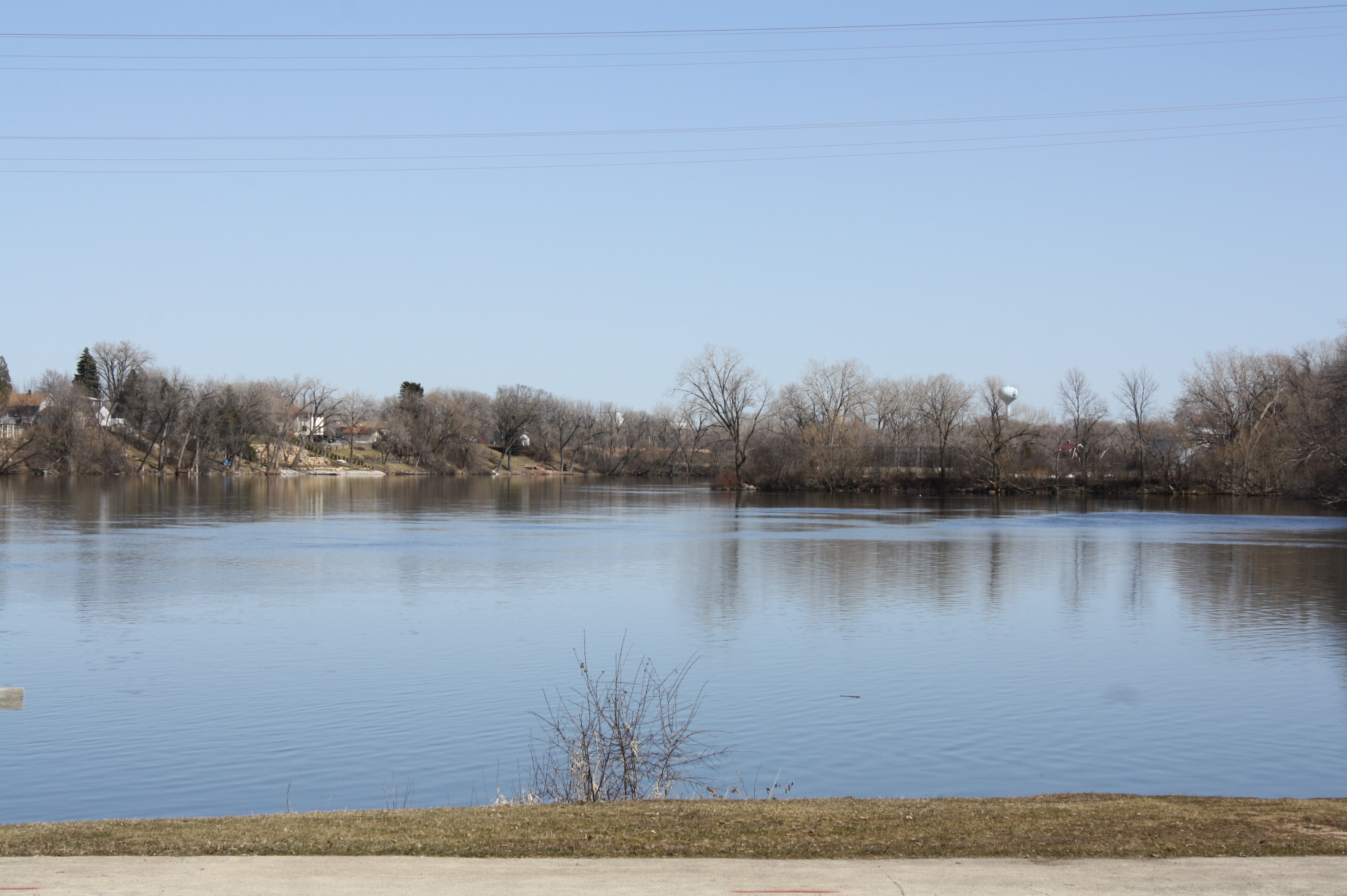 Looking east at the Fox River (Wisconsin) from Sunset Park in Kimberly, Wisconsin.